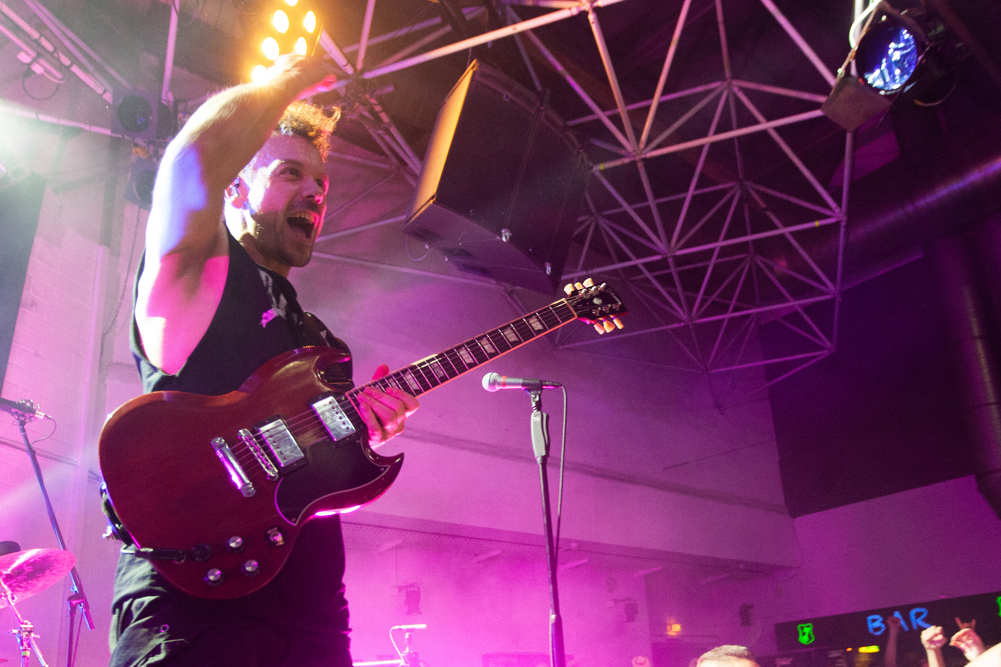 Christoph Kotsche Kotzerina (Rythm Guitar, Backing Vocals) of German metalcore group Callejon on Hartgeld im Club Tour (2019), ZAKK, Düsseldorf (DEU) /// leokreissig.de for Wikimedia Commons